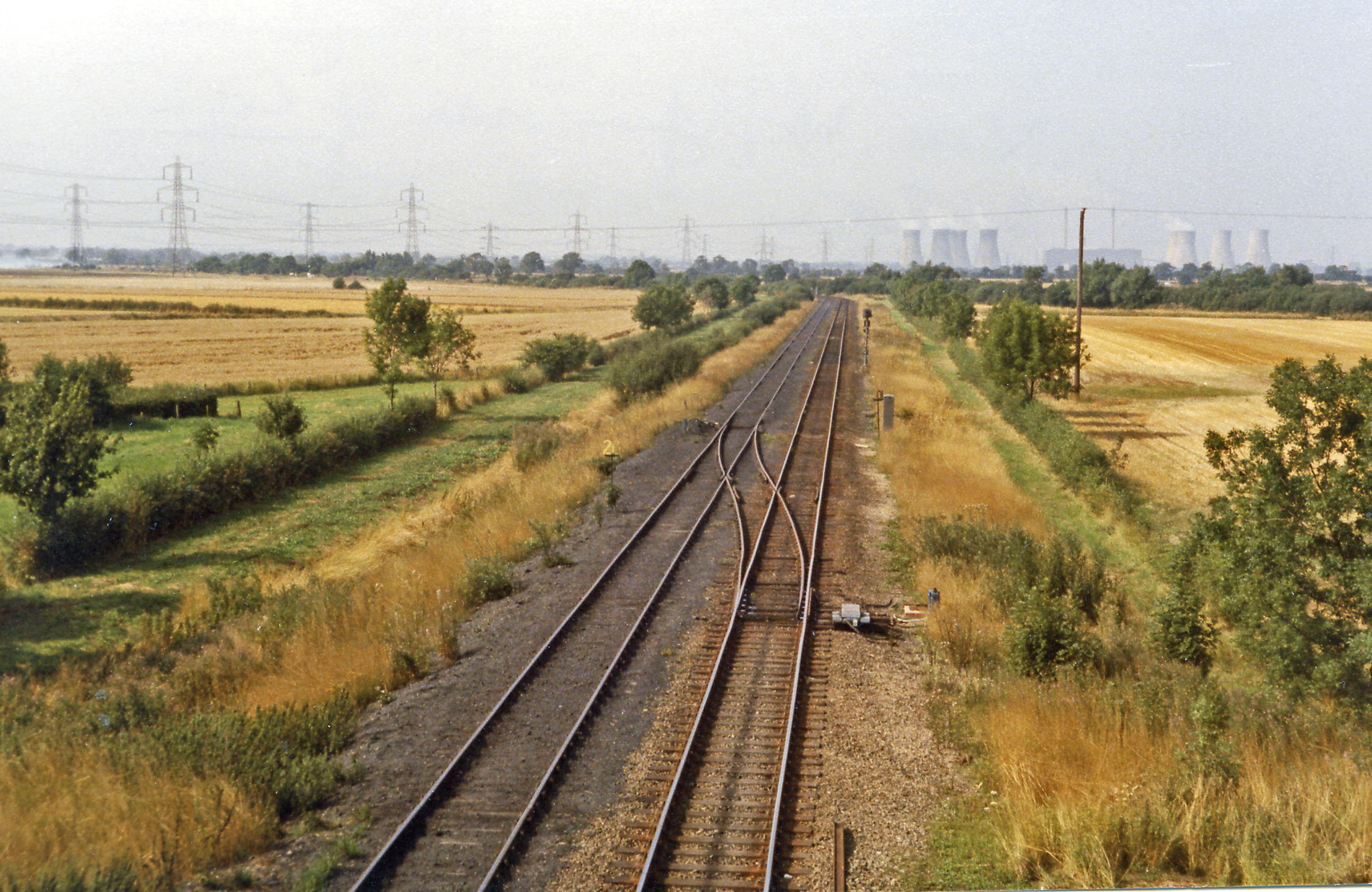 Site of Cottam station, 1983, View NW, towards Retford: short-cut of ex-GC Sheffield - Retford - Lincoln main line. The station was closed and the line between Clarborough Junction and Sykes Junction closed for passenger traffic from 2/11/59, but is kept open from the west for merry-go-round coal trains to Cottam Power Station. (The cooling-towers in the distance belong to West Burton PS).